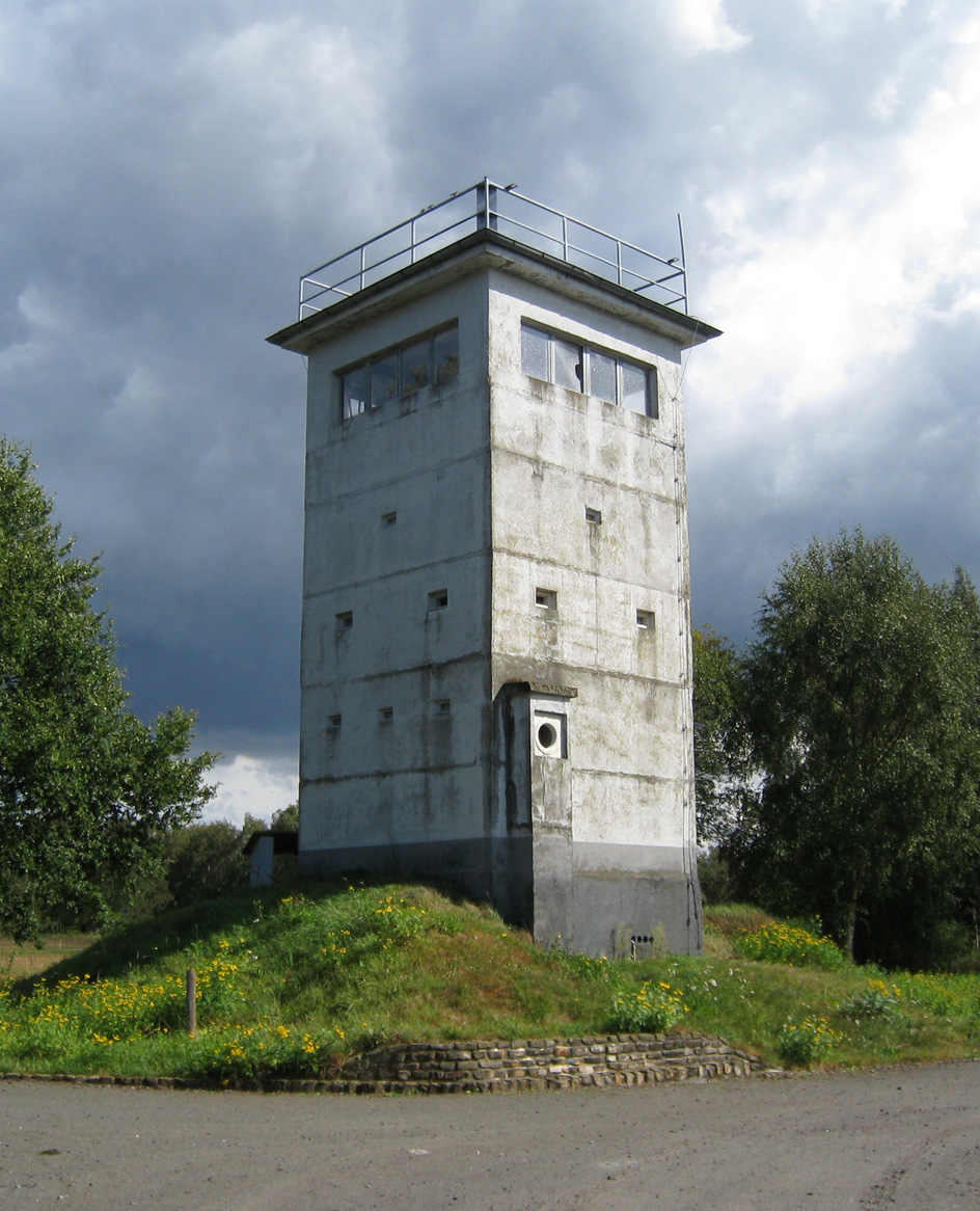 Führungstelle or Kommandoturm ("command tower") near Böckwitz on the former inner German border.